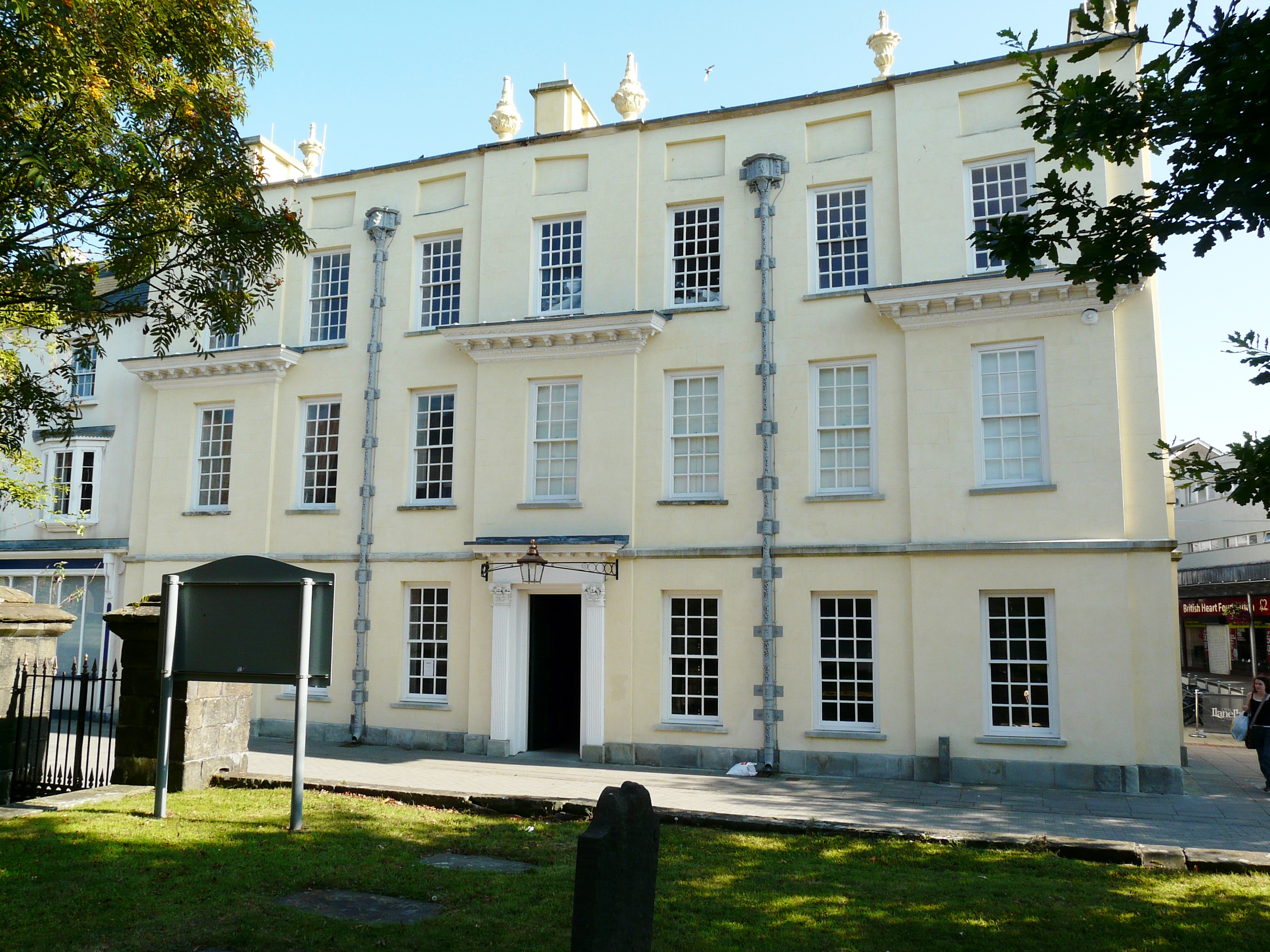 NO.2 (LLANELLY HOUSE) VAUGHAN STREET Wikidata has entry Q17735645 with data related to this building.